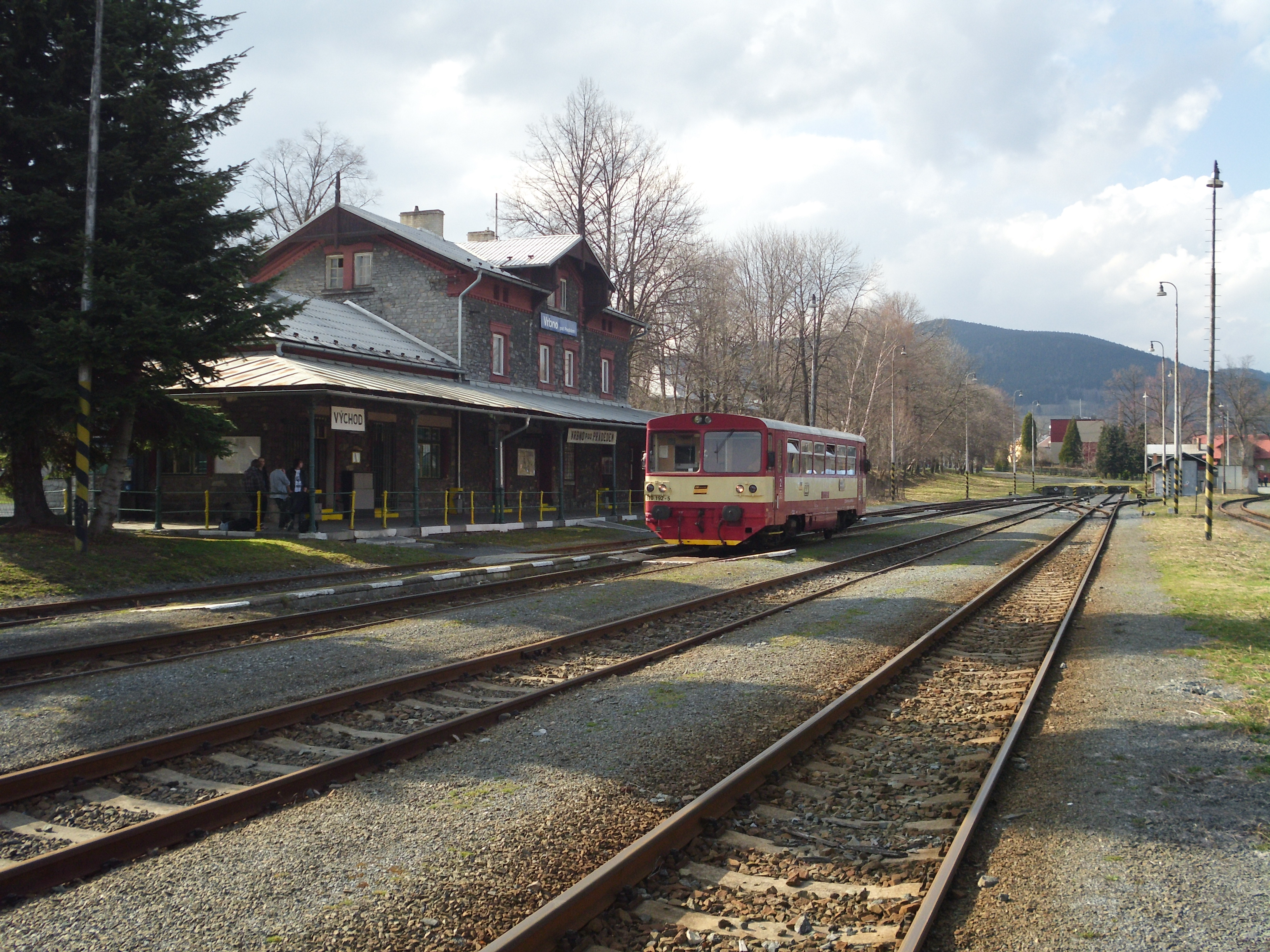 Train station in Vrbno pod Pradědem, Czech Republic